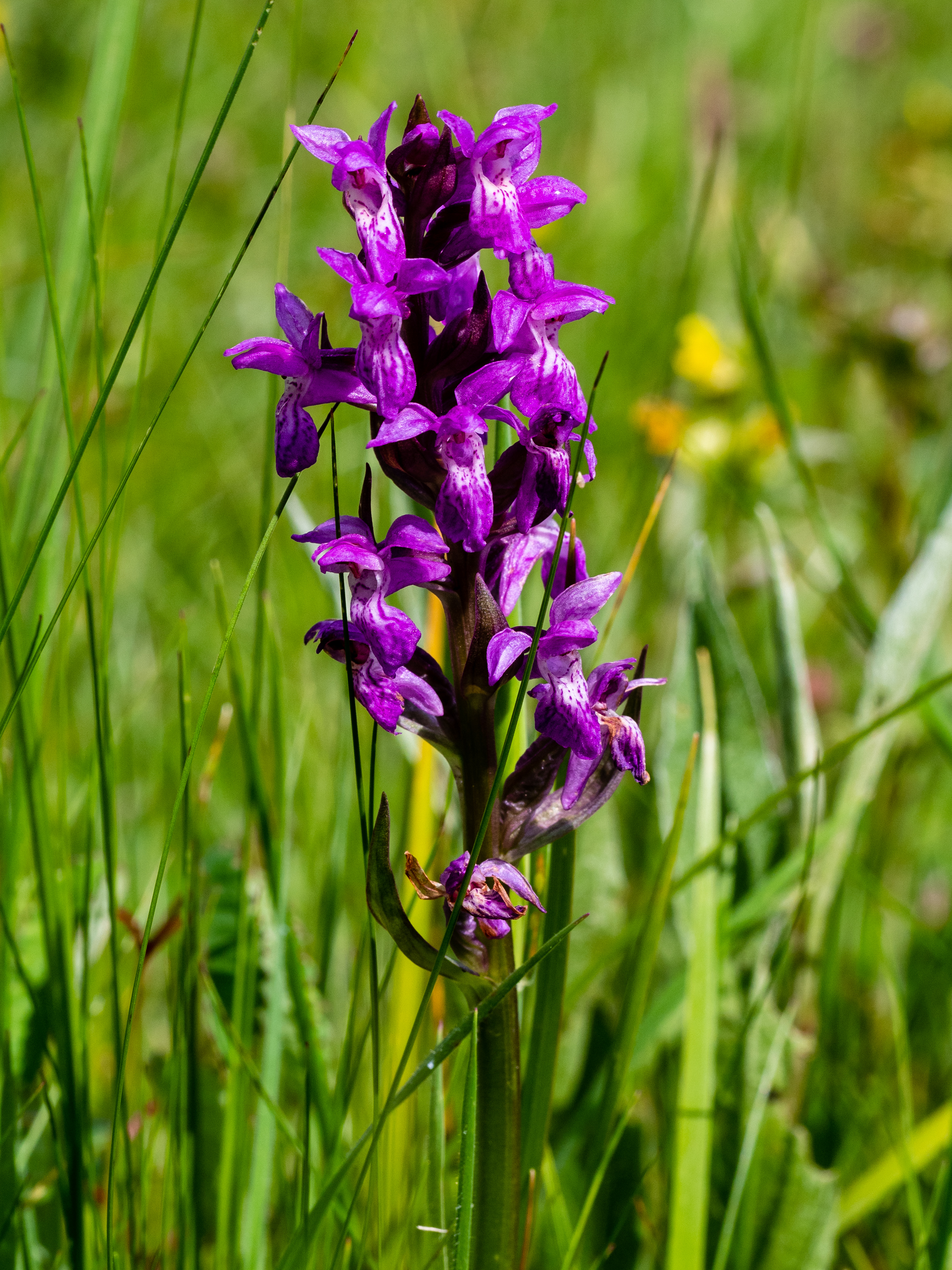 Dactylorhiza at Schulterbachtal in the northern Steigerwald